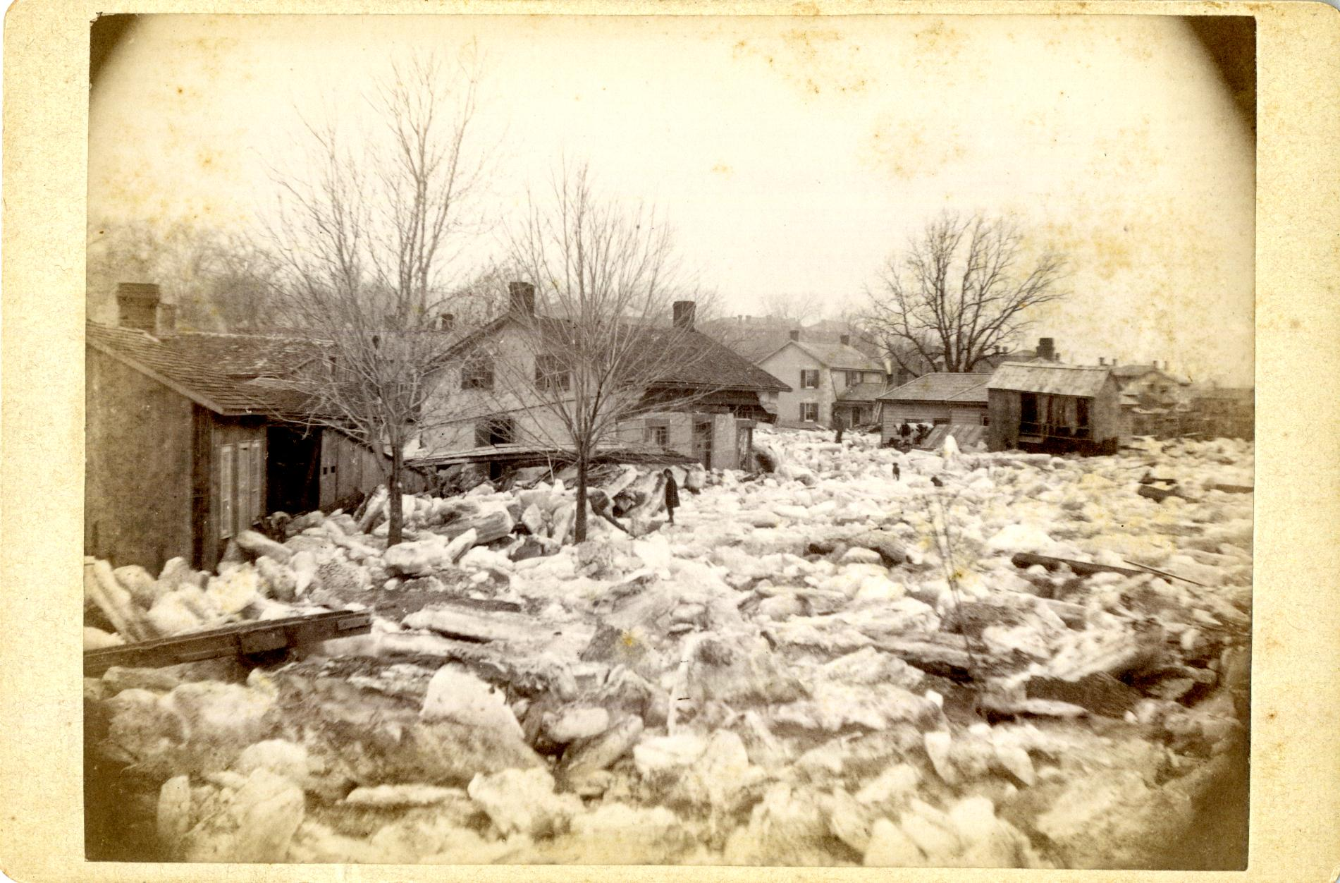 Blocks of ice surrounding buildings on King Street, to the south of Bridge Street on the west side of Moira River, Belleville, Ontario . The 1886 flood took place at 9 p.m. This photo is no. 7 in series taken by Robert McCormick.